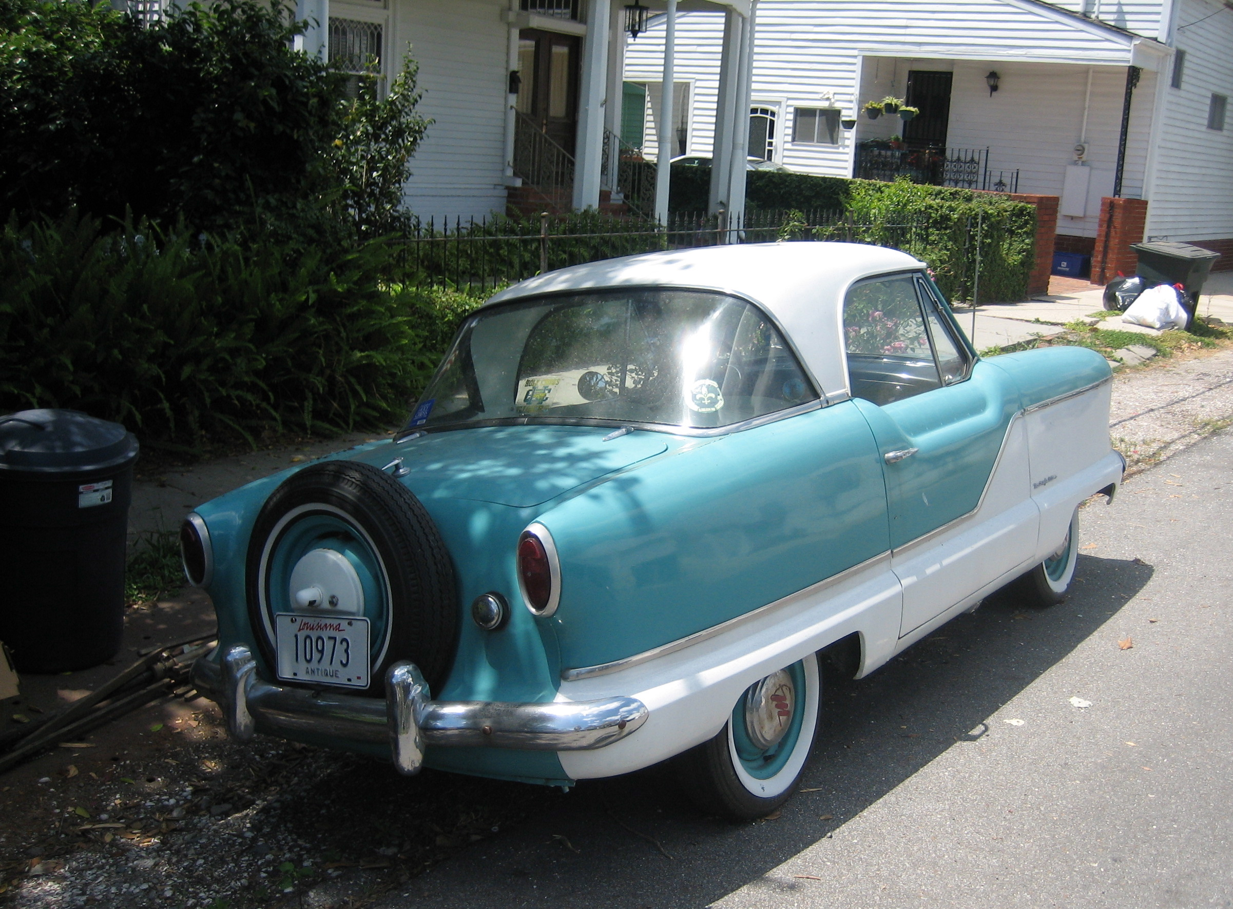 Nash Metropolitan in Algiers Point neighborhood of New Orleans